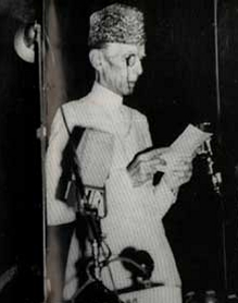 Quaid-e-Azam replying to the Address by Lord Mountbatten in Constituent Assembly on 14 August 1947.